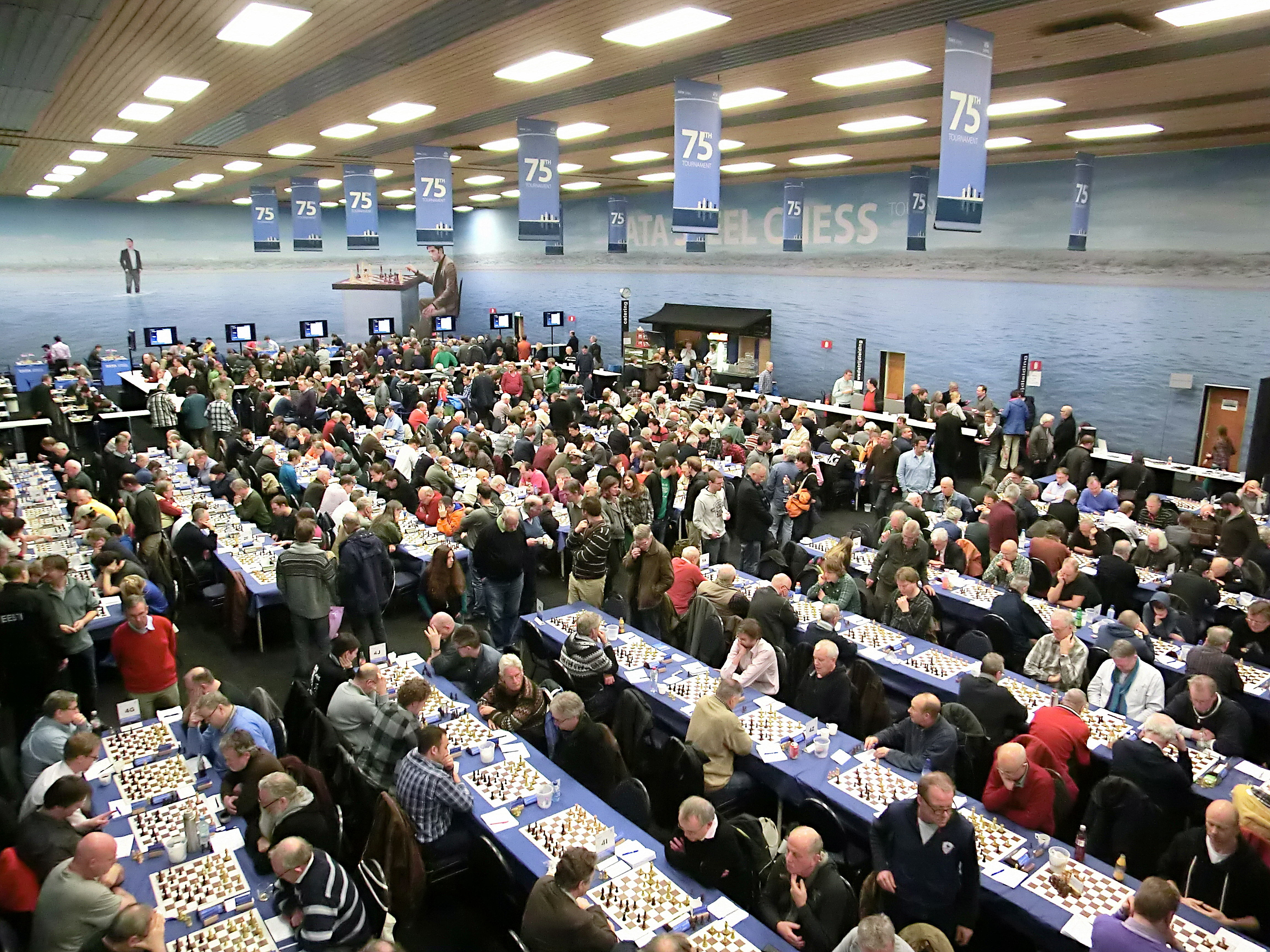 Tata Steel chess tournament 2013, tournament hall